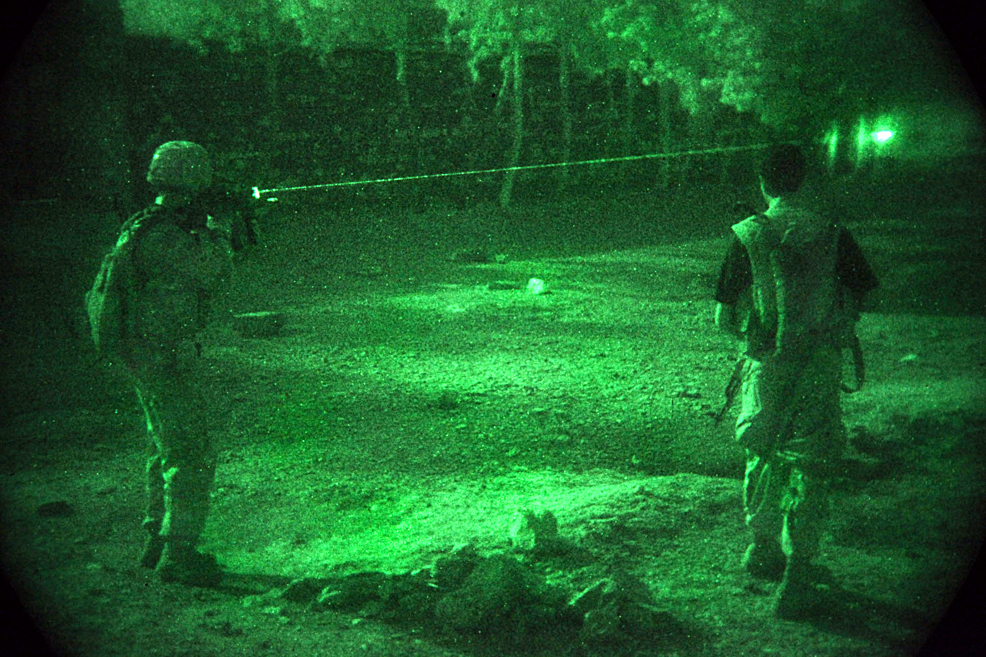 As seen through a night-vision device, U.S. Army Sgt. Andrew Burch and an Afghan soldier scan a tree line for militants during Operation Champion Sword, an air assault mission, in Khost province, Afghanistan, Aug. 4, 2009. Burch is assigned to the 25th Infantry Division’s 2nd Battalion, 377th Parachute Field Artillery Regiment, 4th Brigade Combat Team. U.S. Army photo by Spc. Matthew Freire